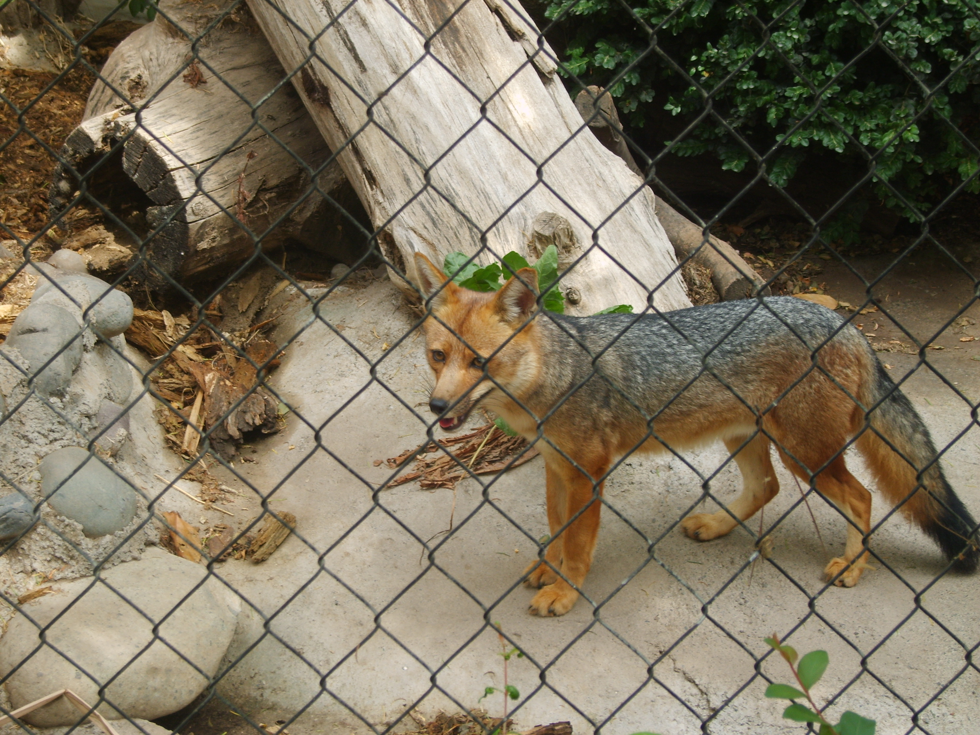 culpeo fox (Pseudalopex culpaeus)